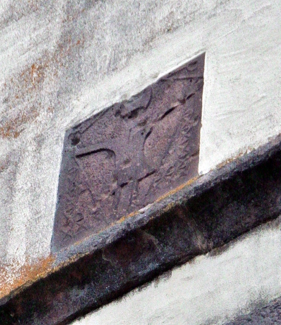 Ebertsheim-Rodenbach Prot. Kirche, romanisches Relief eines Menschen